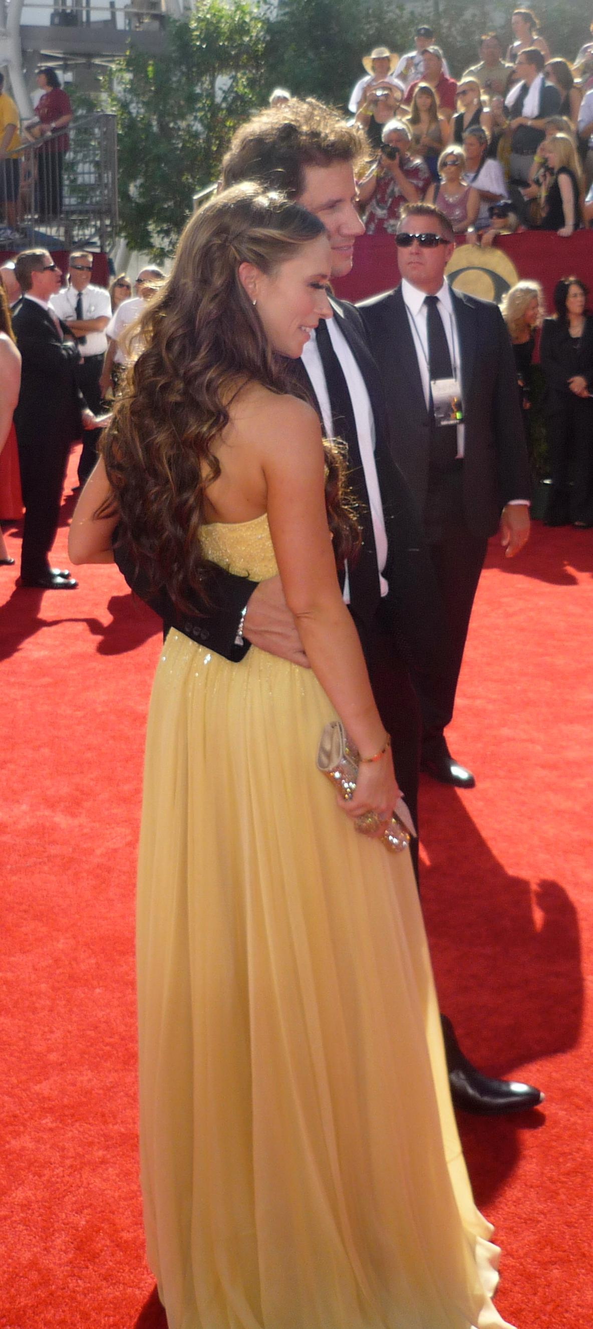 Actress Jennifer Love Hewitt and Jamie Kennedy at the 2009 Primetime Emmy Awards.